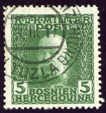 Bosnia and Herzegovina 5 heller stamp, issue 1912, cancelled ZAHLUNG at TUZLA in 1917.